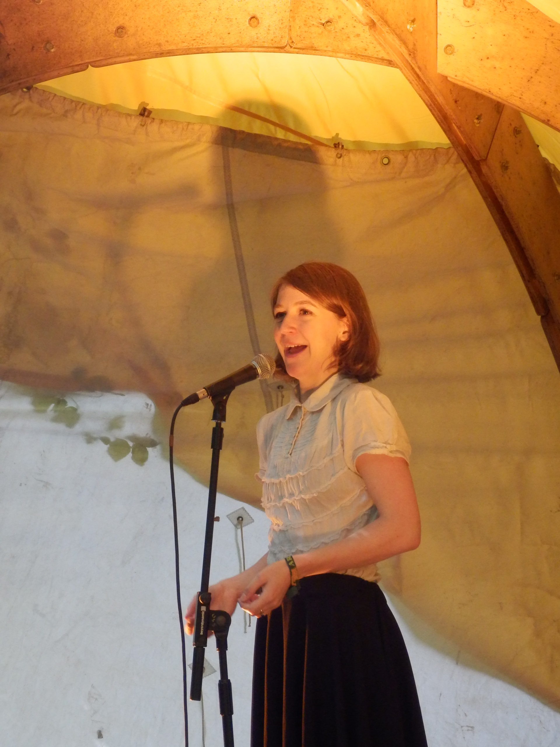 Gemma Whelan in Tollard Royal, UK